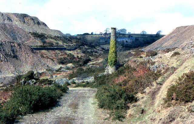 Mine chimney and spoil tips, Gonamena. 1979. View looking north towards Gonamena, showing extensive spoil tips and mining activity. Part of the former South Caradon Mines complex. Photographed in 1979.